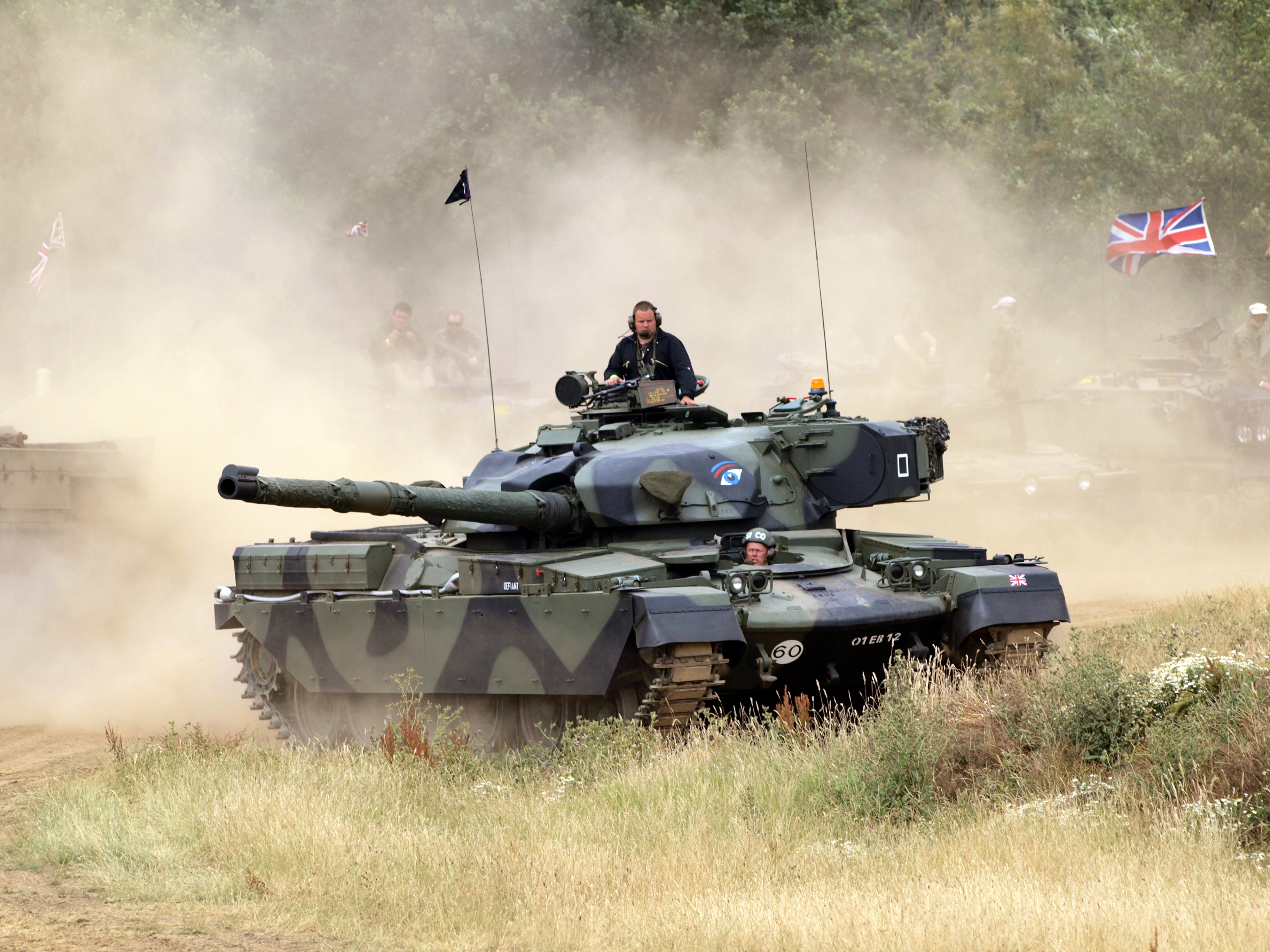 Chieftain MBT